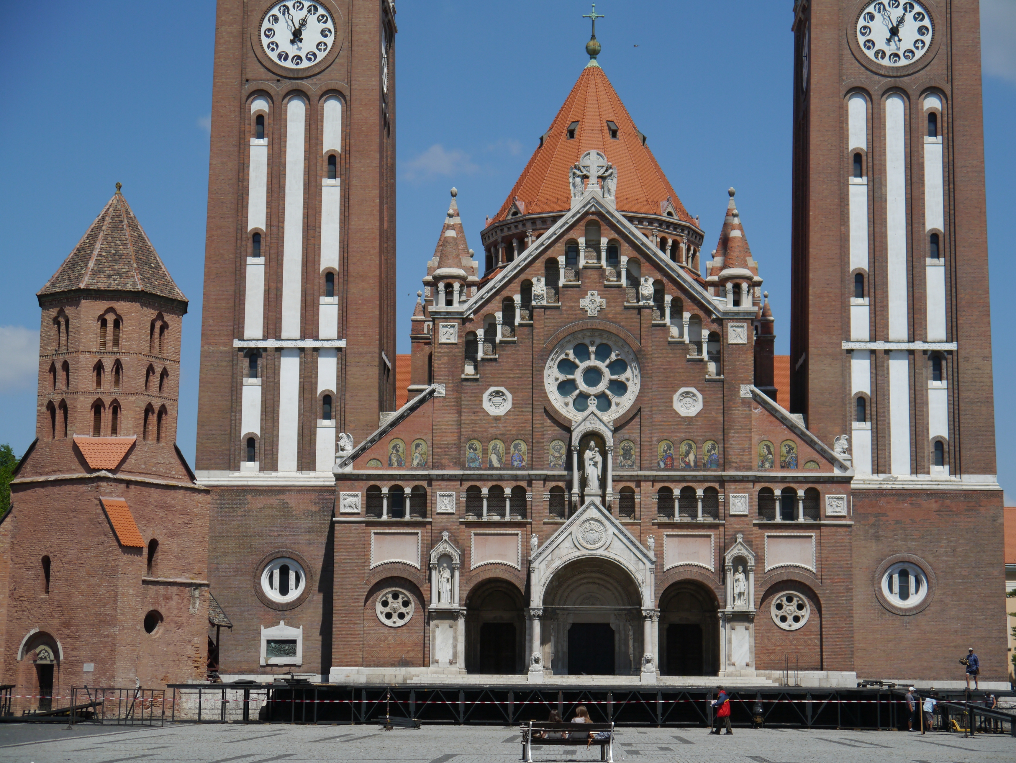 Facade of the Cathedral of Our Lady, Szeged, Southern Hungary